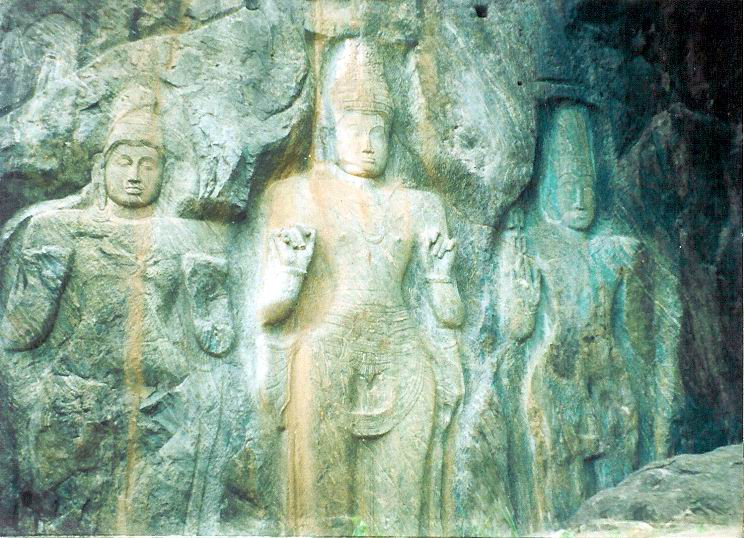 Three Buddha statues at Buduruvagala temple Sri Lanka. සිංහල: බුදුරුවගල අර්ධ උෟර්ණ බුද්ධ ප්‍රතිමා